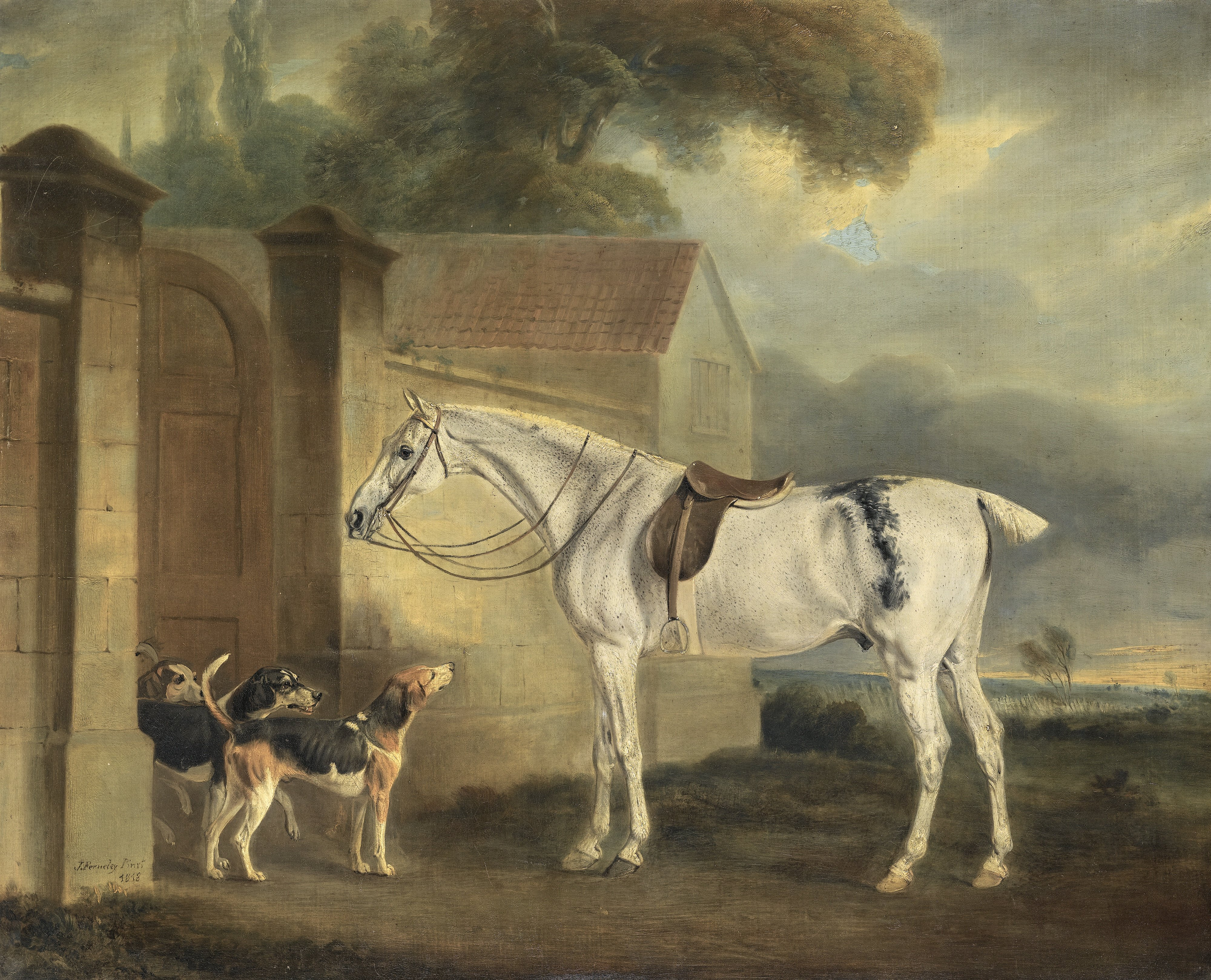 Brass, at Cottesmore with the Cottesmore Hounds, oil on canvas painting by John Ferneley Snr, 1818